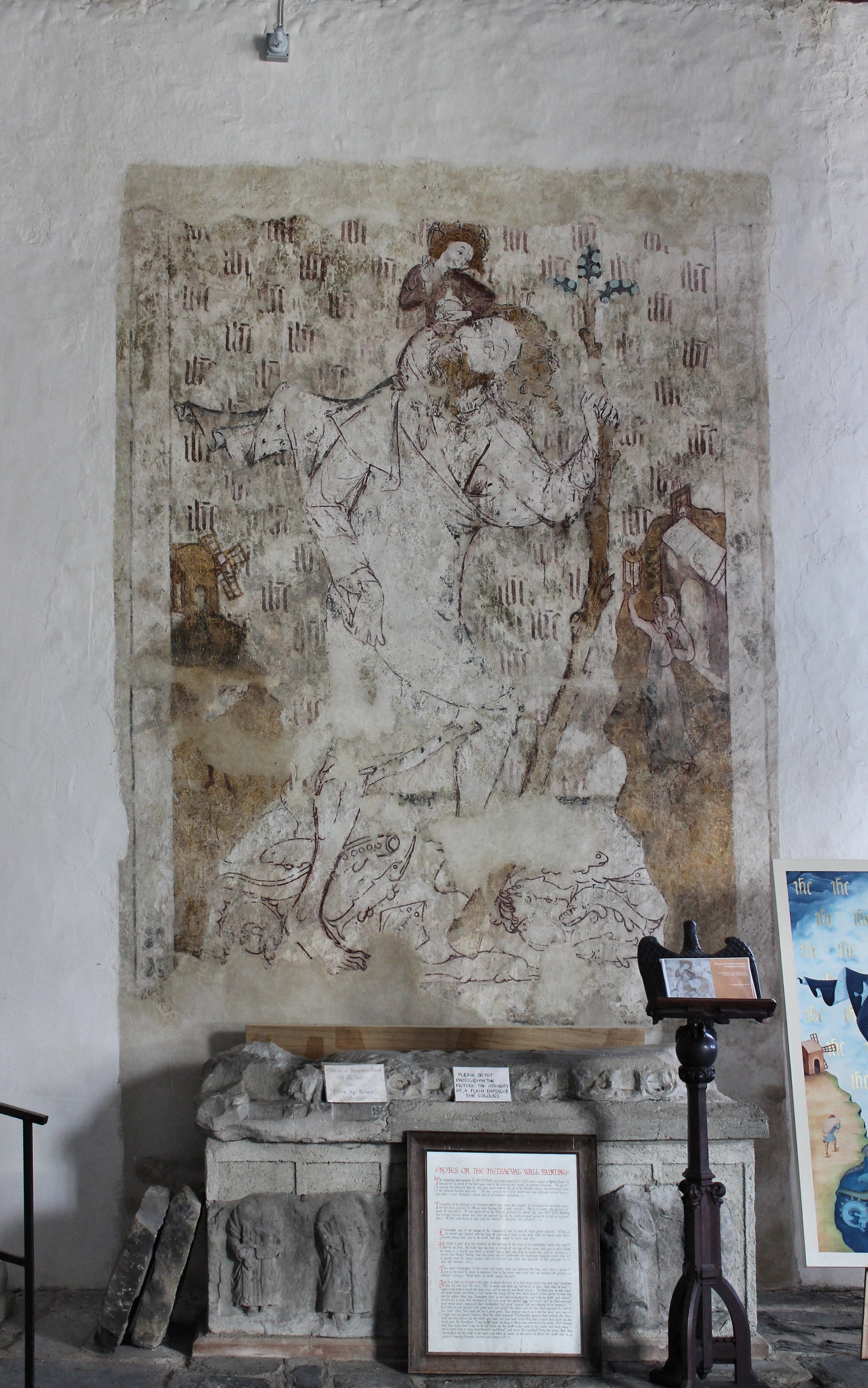 Mediaeval painting on wall of St Christopher and Christ. St. Saeran's church, Llanynys, Denbighshire, North Wales is a Grade 1 listed building. In 2015 a £4.5 million project came to an end, preserving this church.